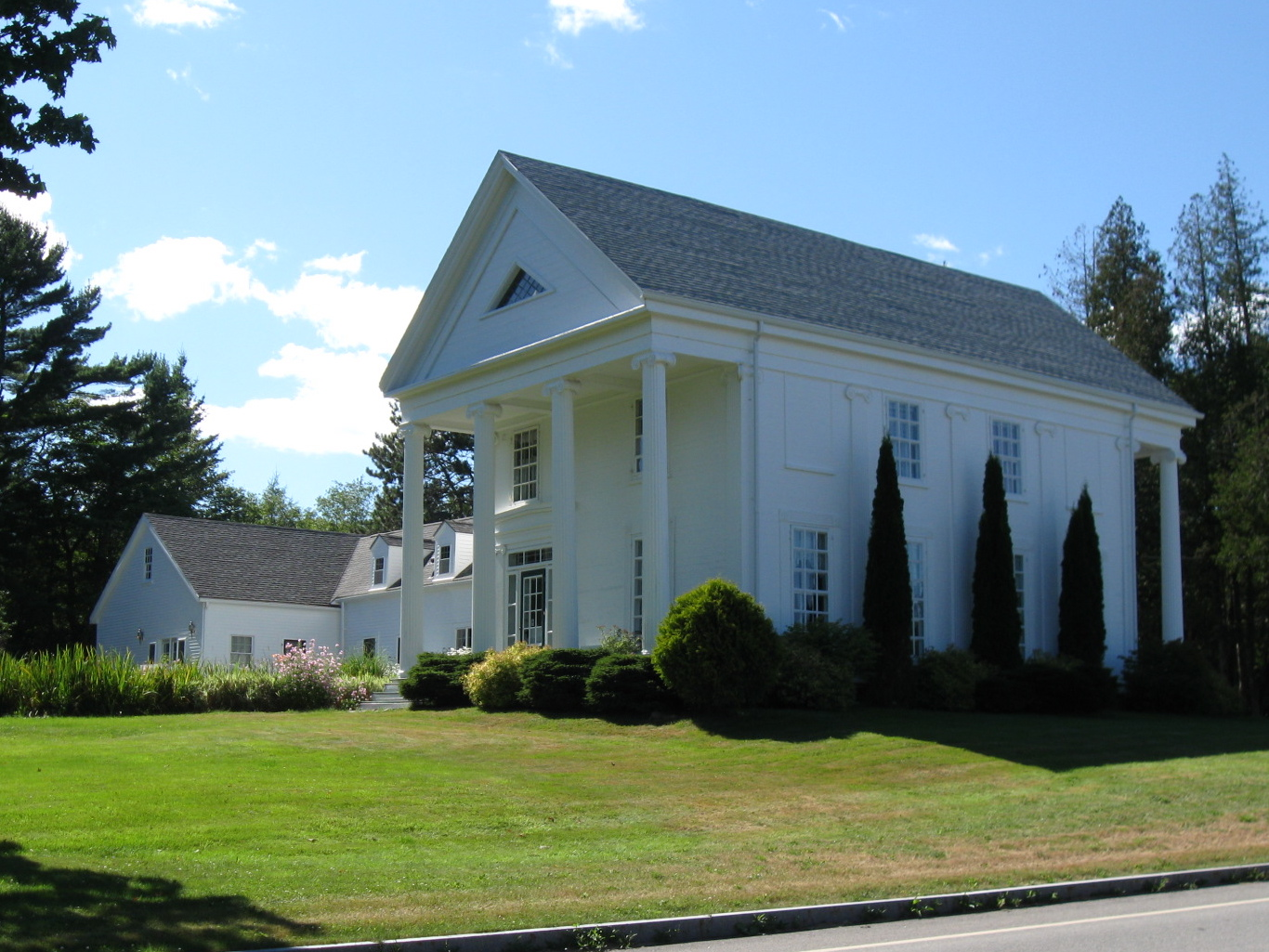 John N.M. Brewer House, Robbinston, in 2012